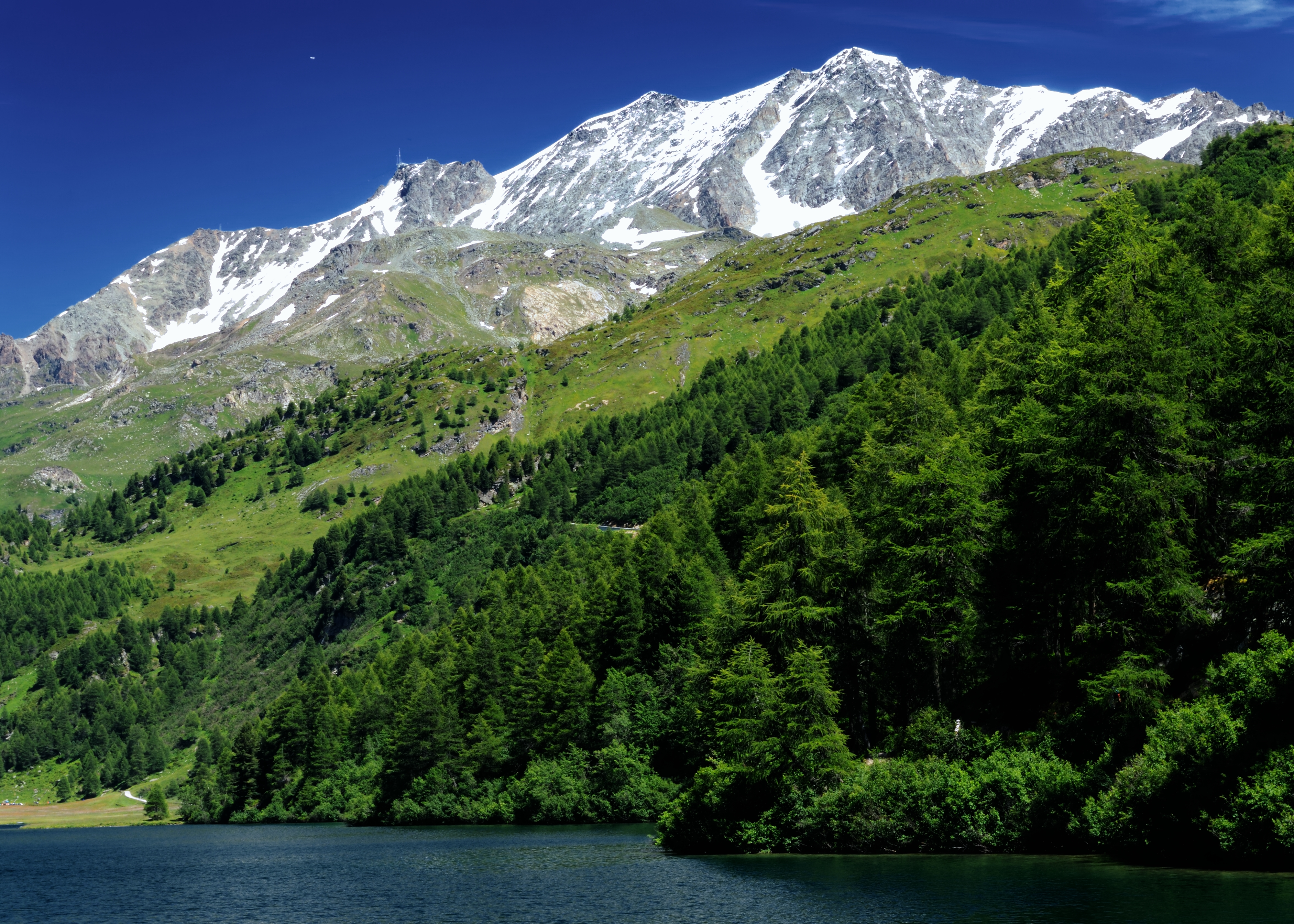 Piz Corvatsch from Lake Sils. Elevation points are from the Swisstopo topographic maps.